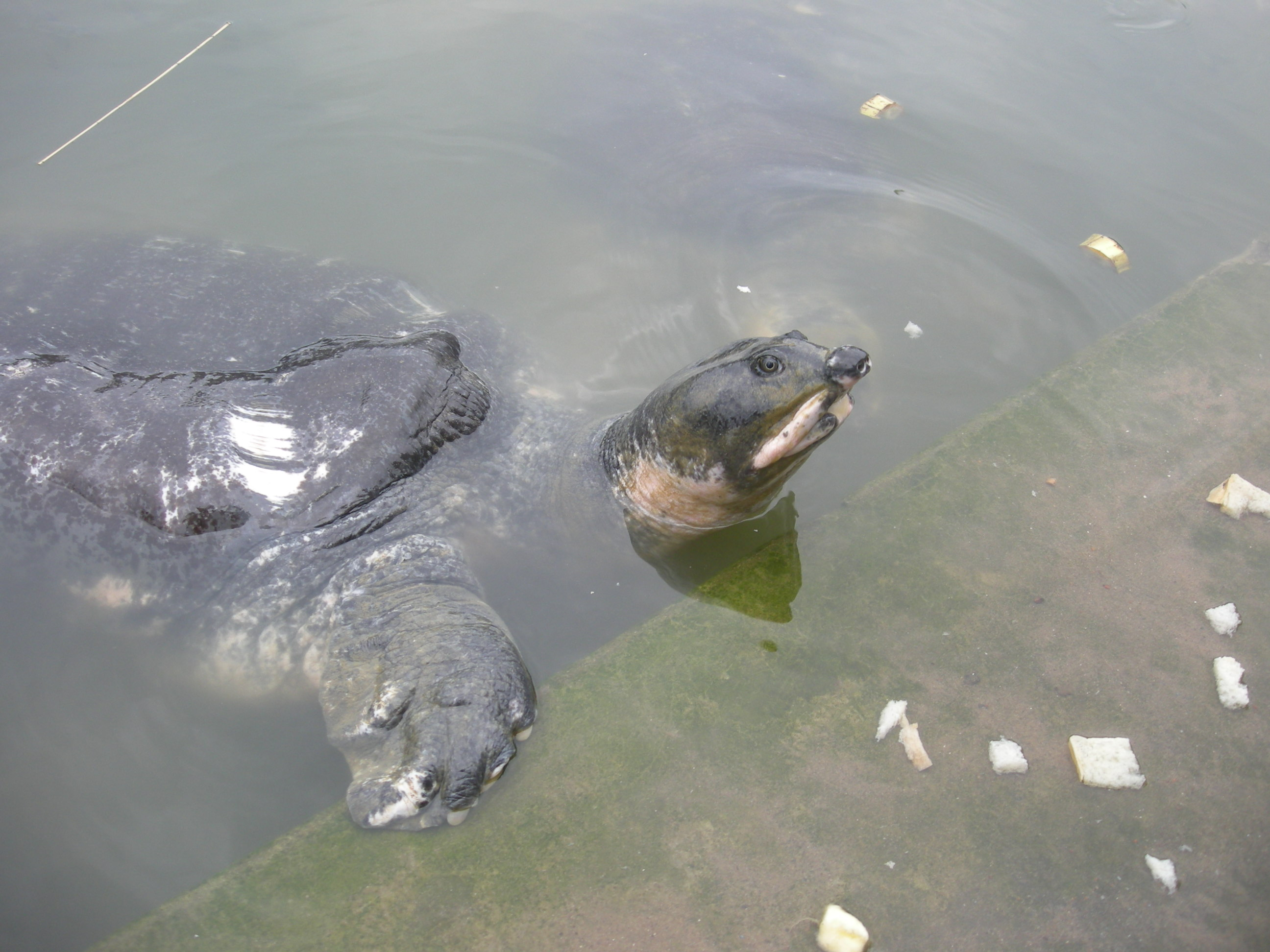 Black Soft-shelled Turtle or Bostami Turtle (Nilssonia nigricans)